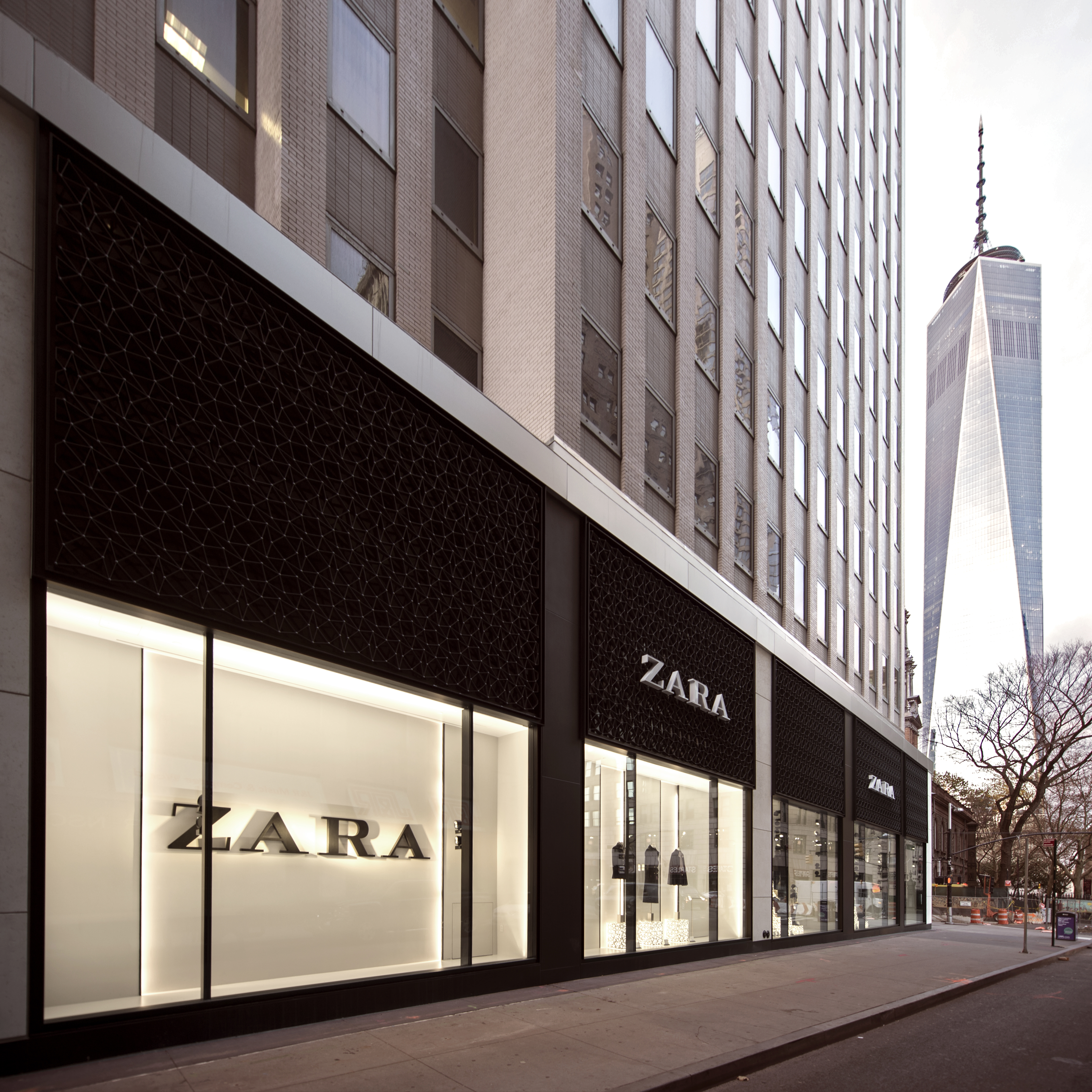 Tienda de Zara en Broadway, Nueva York